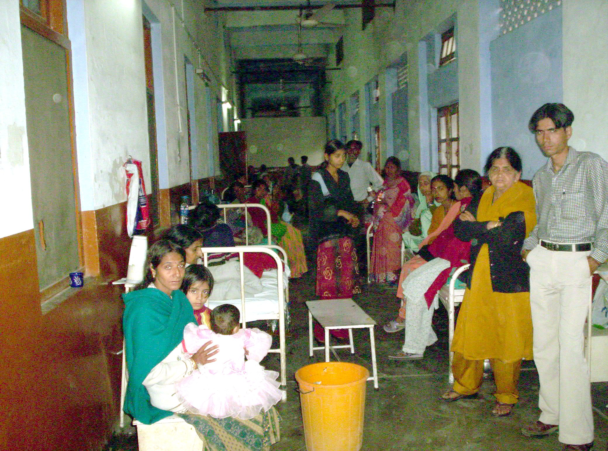 From a charitable hospital in the Indian Himalayas.